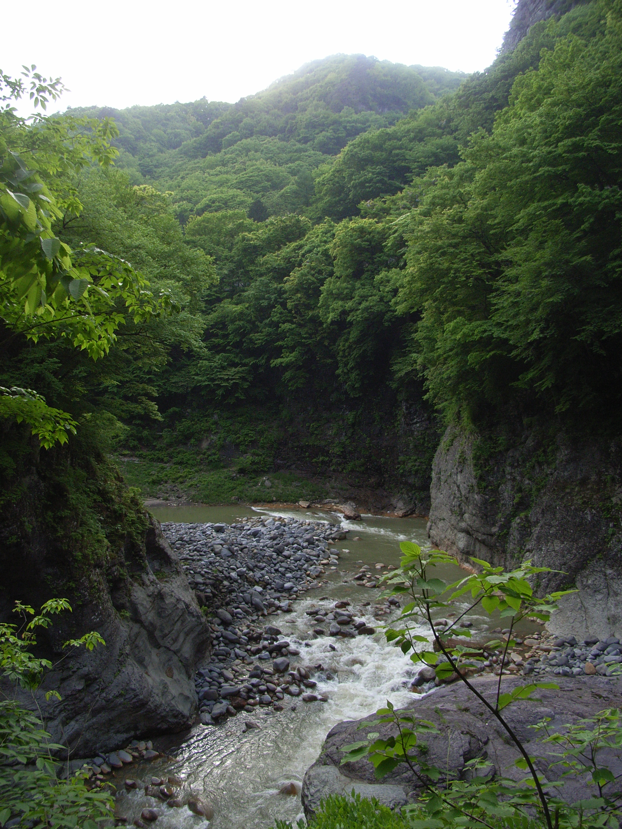 Agatsuma Valley in Agatsuma District, Gunma, Japan.